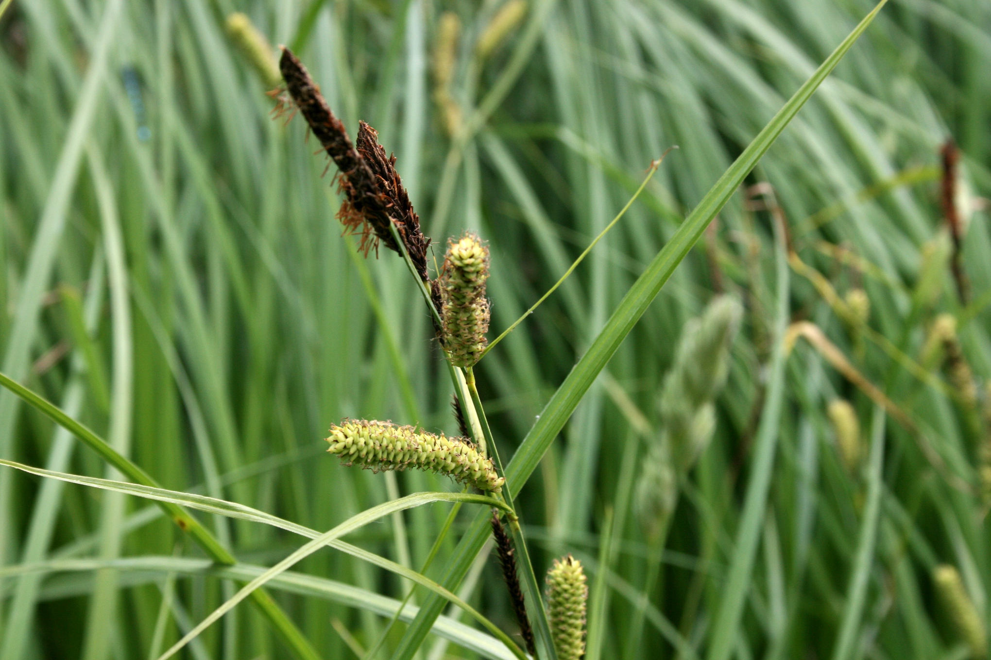 Carex acutiformis: Male and female flower heads